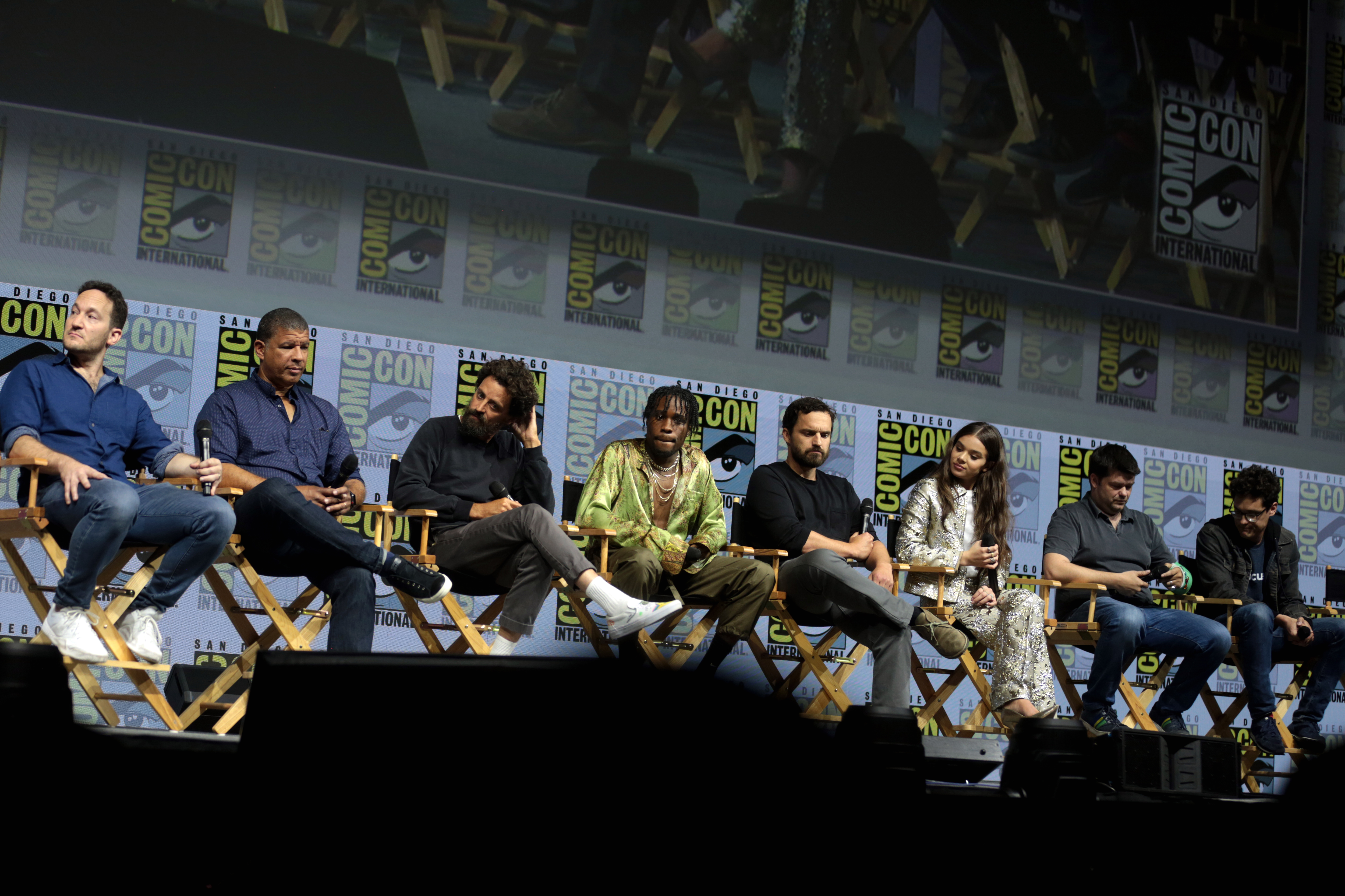 Rodney Rothman, Peter Ramsey, Bob Persichetti, Shameik Moore, Jake Johnson, Hailee Steinfeld, Christopher Miller and Phil Lord speaking at the 2018 San Diego Comic Con International, for "Spider-Man: Into the Spider-Verse", at the San Diego Convention Center in San Diego, California.